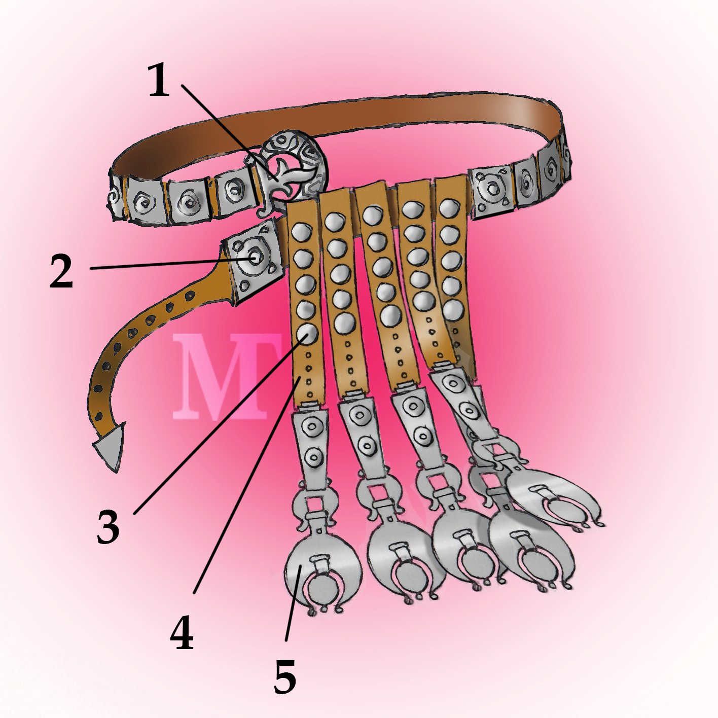 Cingulum militare2, Tekija